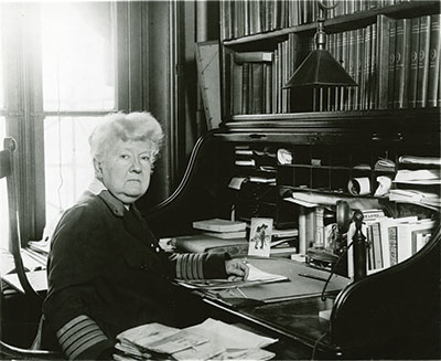 Photo from the Penn Museum archives of Sara Yorke Stevenson in her office working